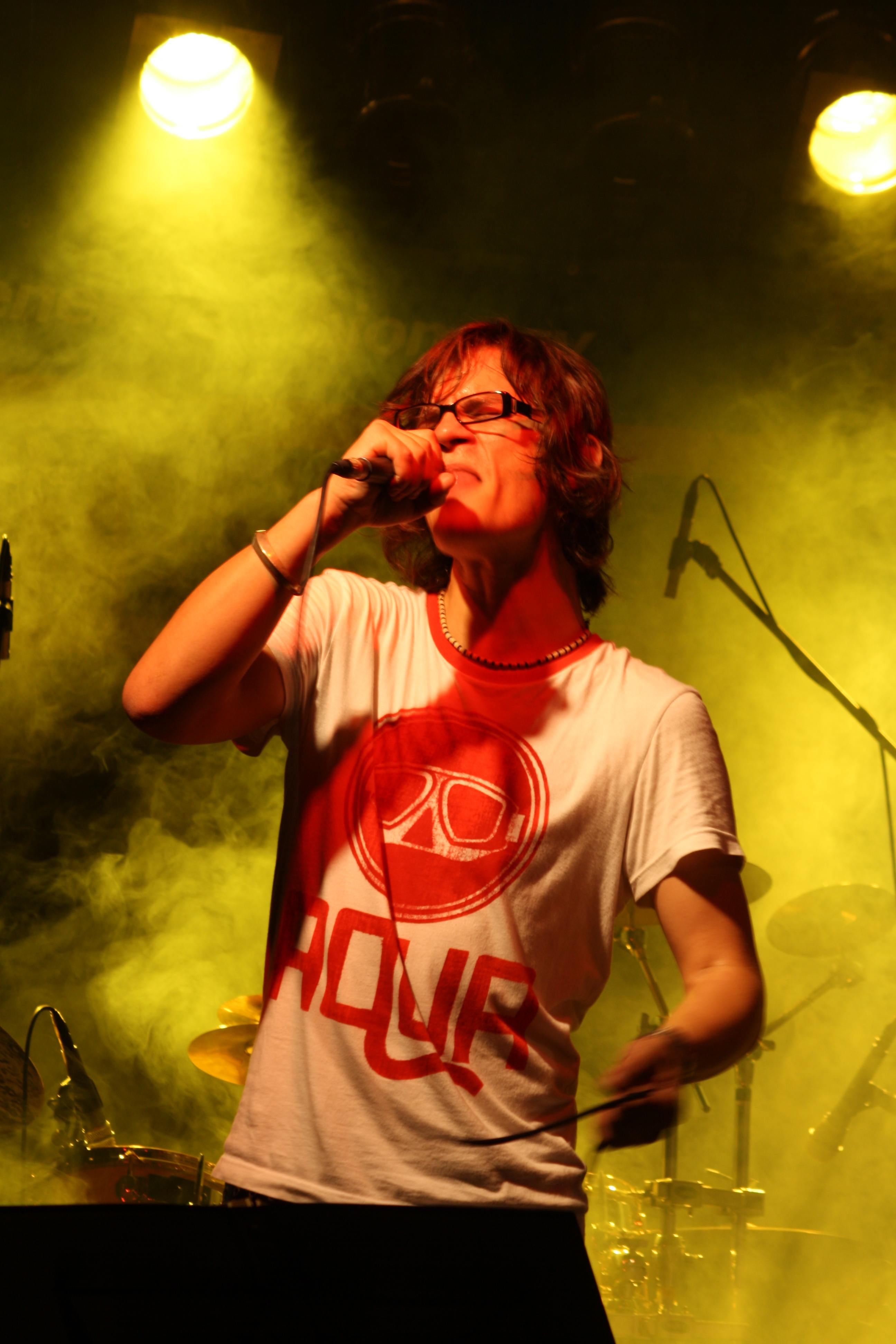 David Kraus at UNESCO celebrations 2009 in Třebíč, Czech Republic.